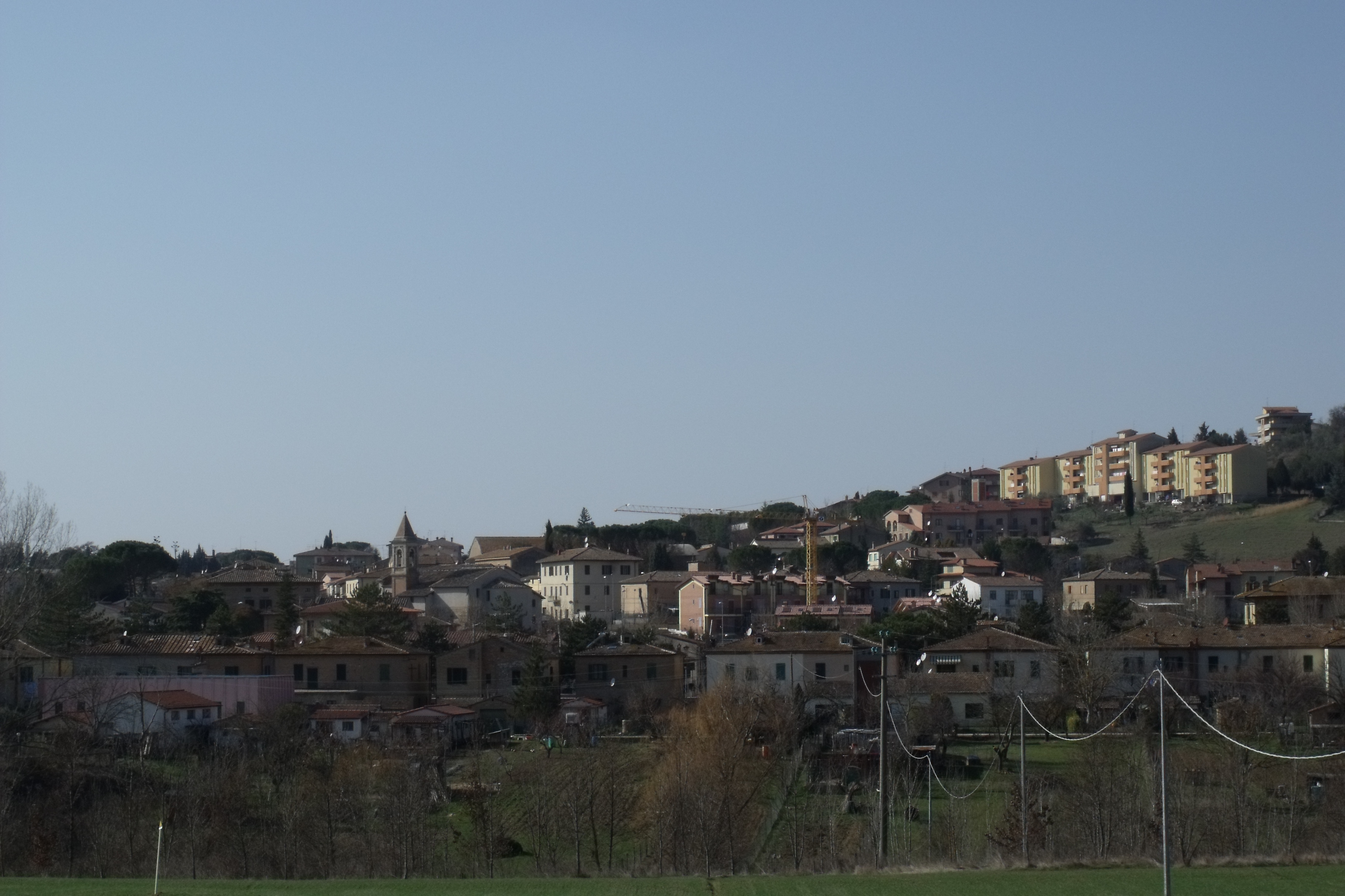 Torrenieri, hamlet of Montalcino, Province of Siena, Tuscany, Italy